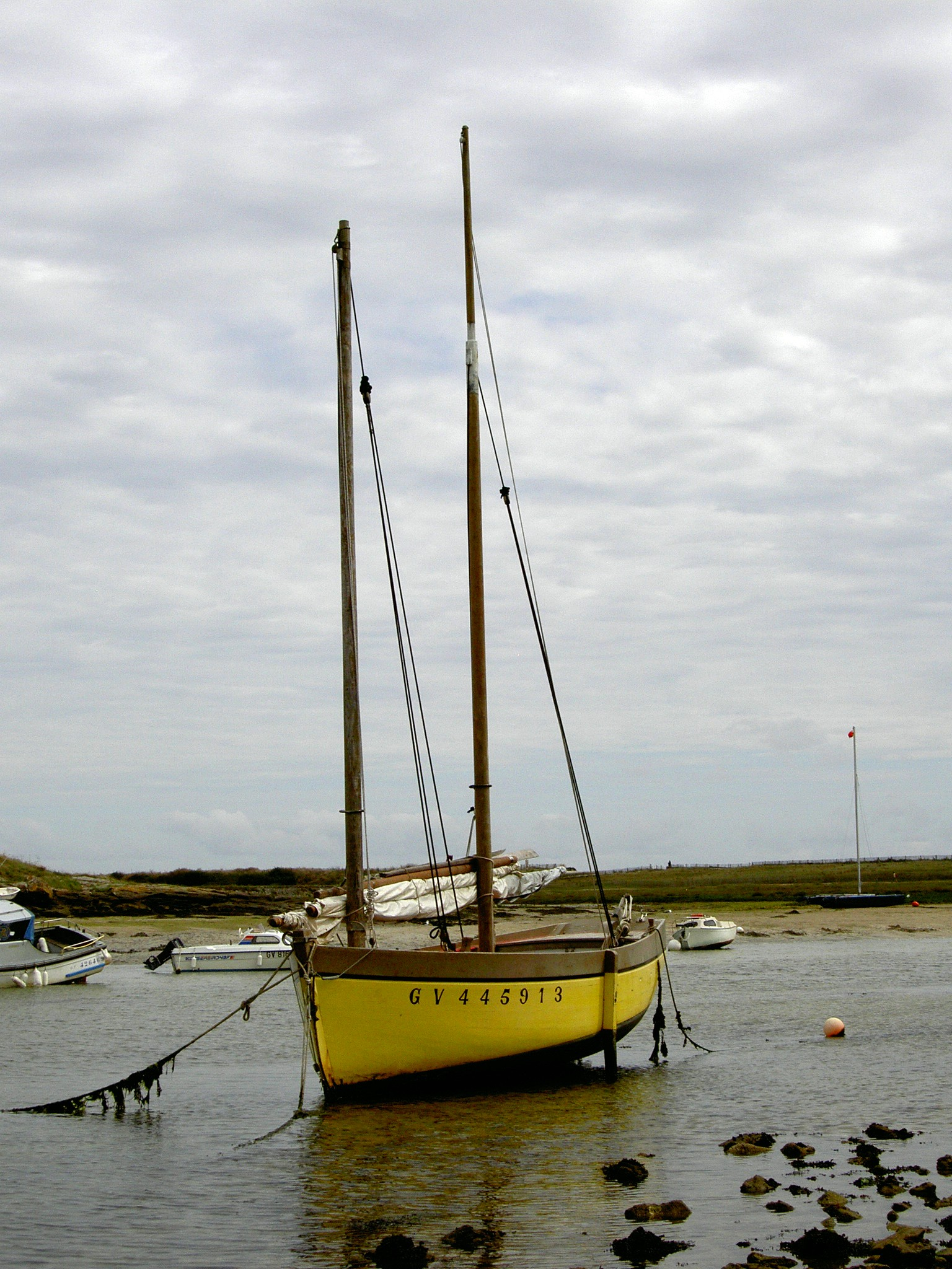 Traditional boat for sardine fishing (Plobannalec-Lesconil, France).